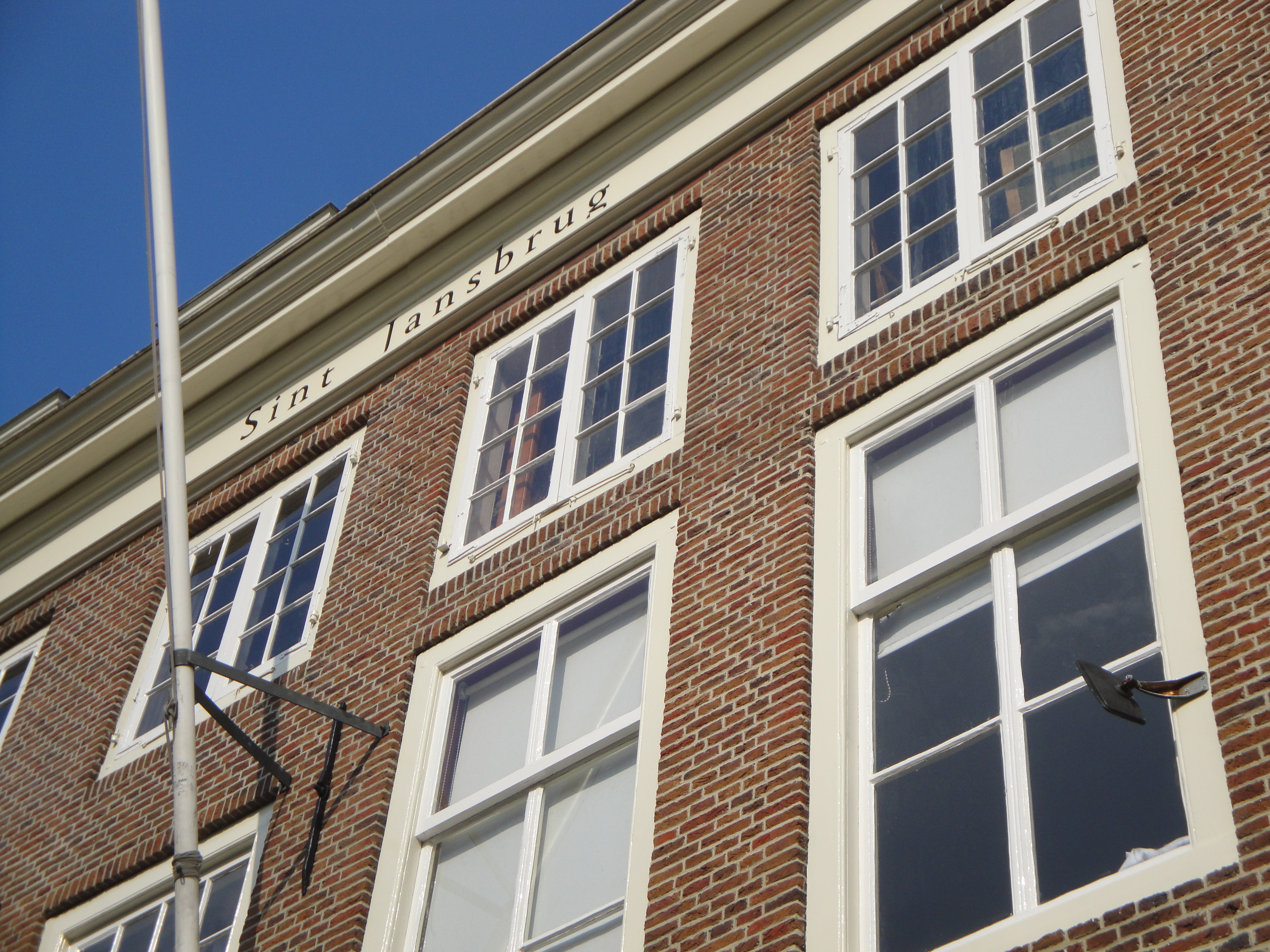 picture of the building Oude Delft 50 52